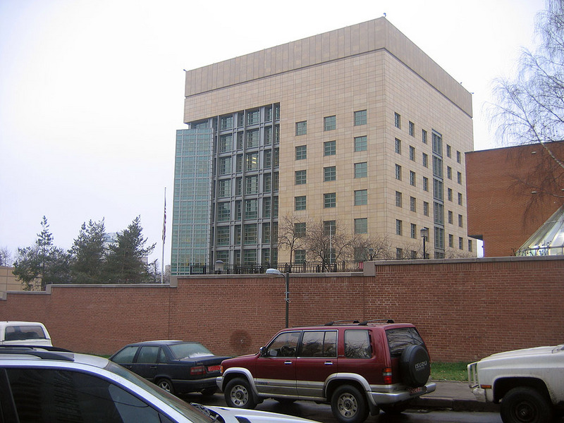 US embassy in Moscow